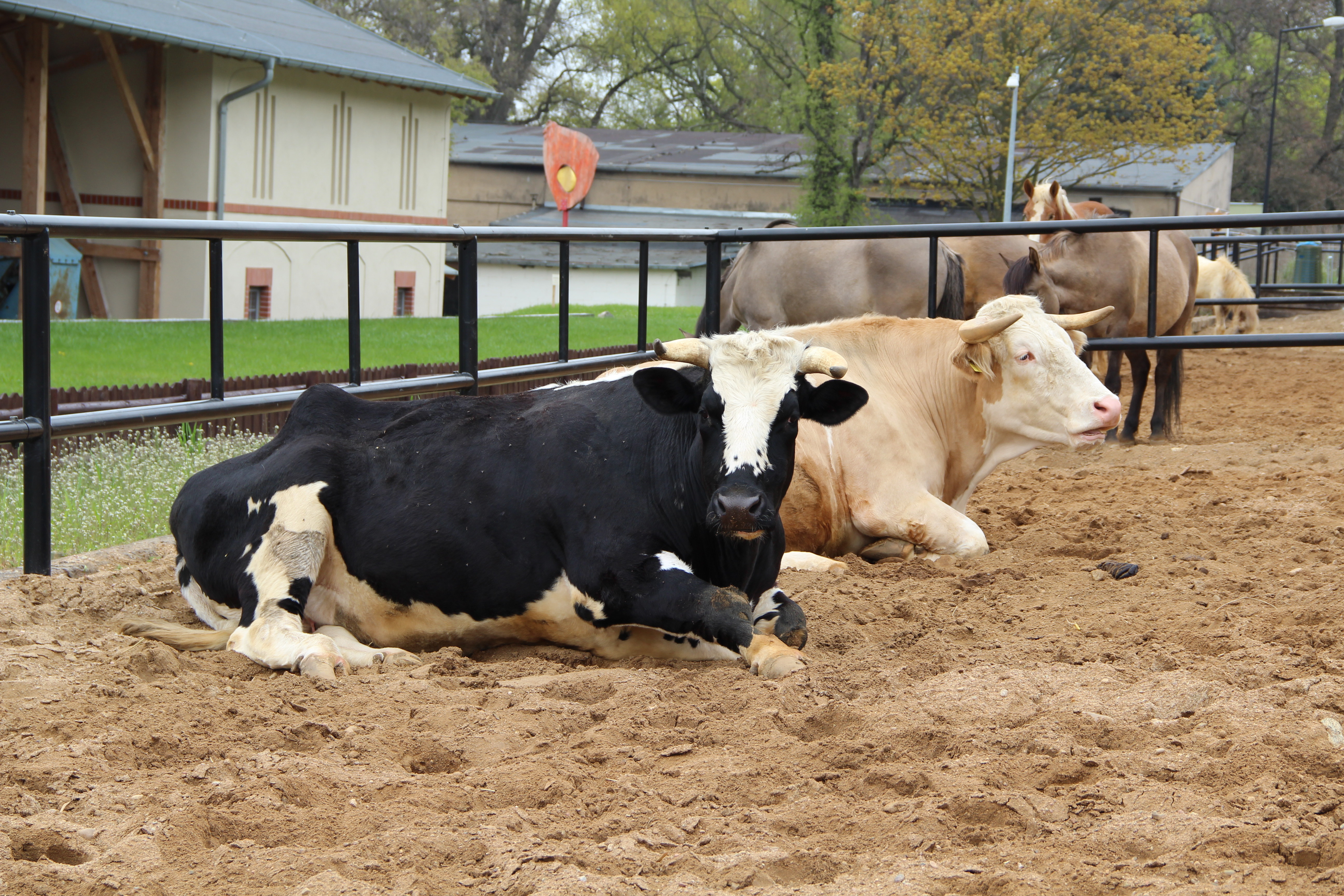 National Museum of Agriculture in Szreniawa. Breed: Białogrzbieta